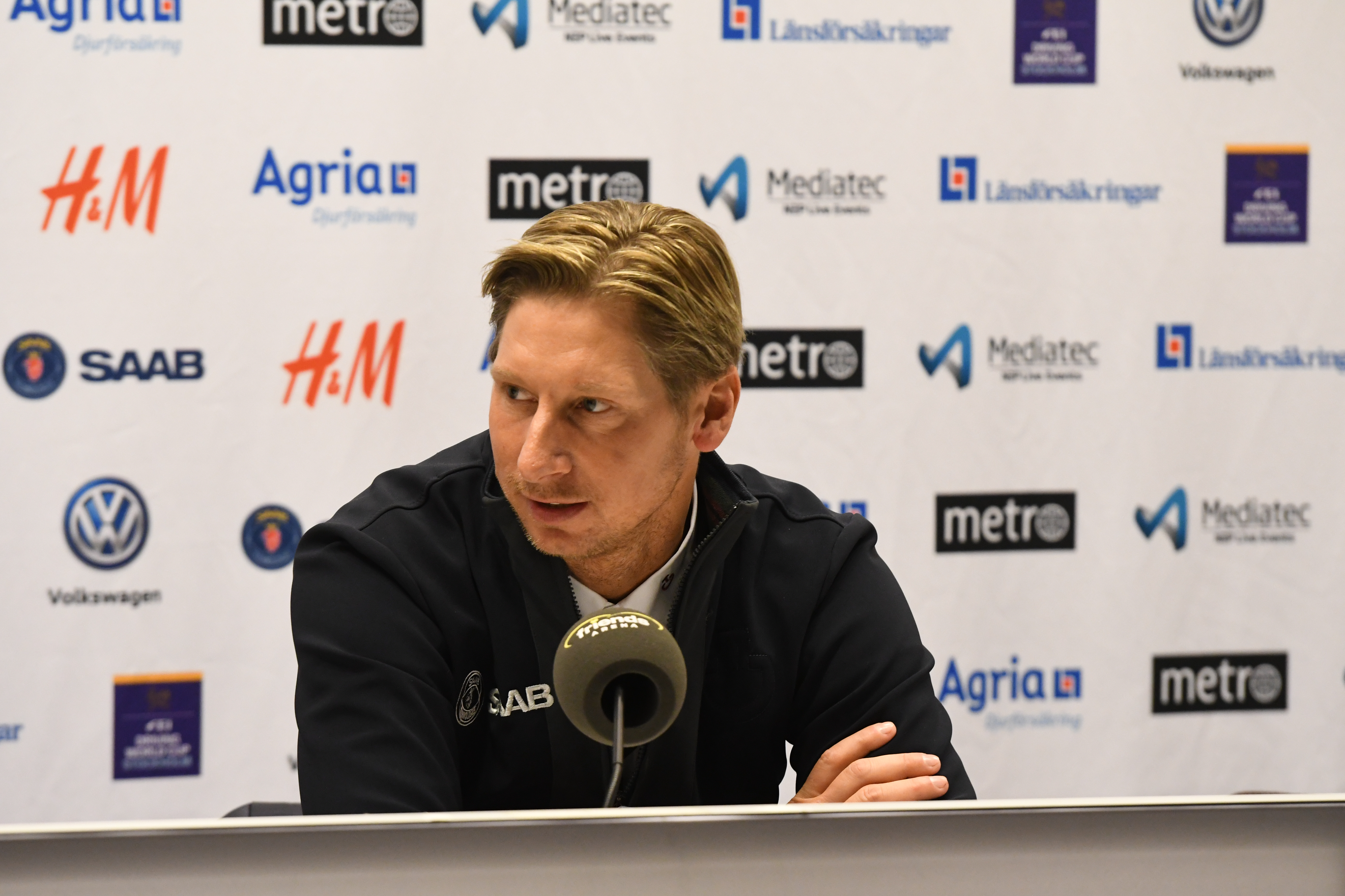 Patrik Kittel during press conference after SAAB Top Ten Dressage Grand Prix during Sweden International Horse Show 2018.